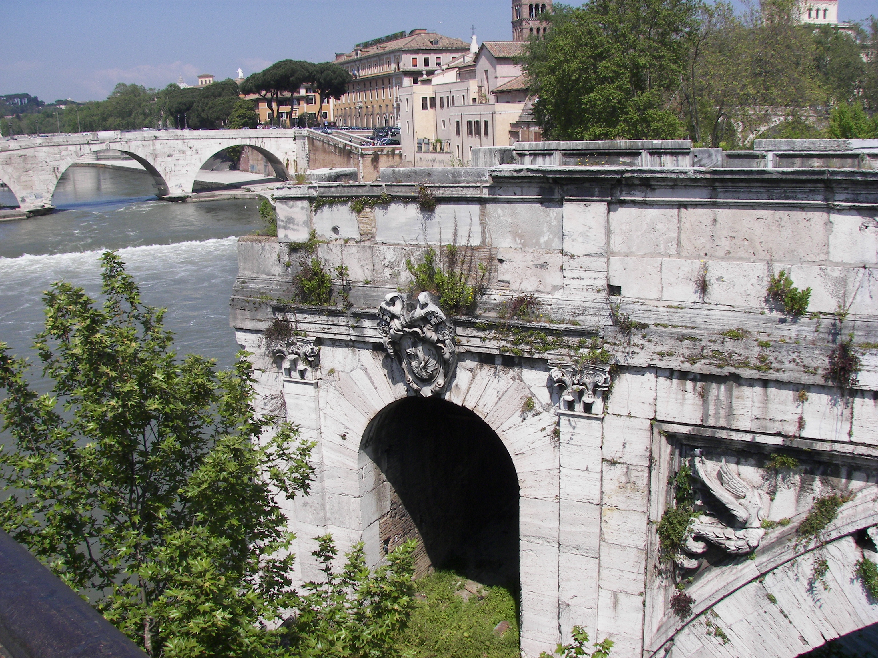 Ponte Rotto taken from the Ponte Palatino with Isola Tiberina in the background and Pons Cestius in the back-left.